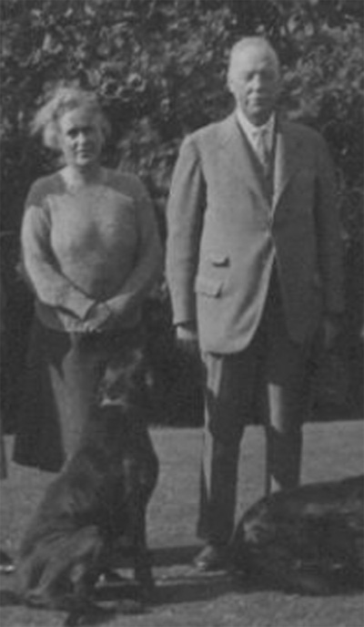 Doris Kathleen Briggs and Colonel William Hilton Briggs, former residents of Garston Manor (previously High Elms), near Watford, Hertfordshire